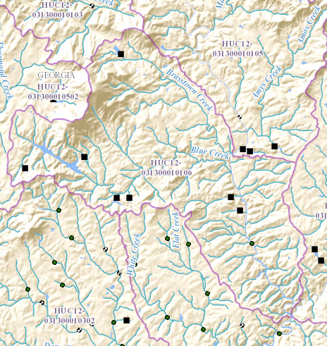 HUC 031300010106 - Blue Creek-Chattahoochee River. Blue Creek flows west and meets the Chattahoochee River in the east center of the sub-watershed, which is crosses the eastern portion of the area.